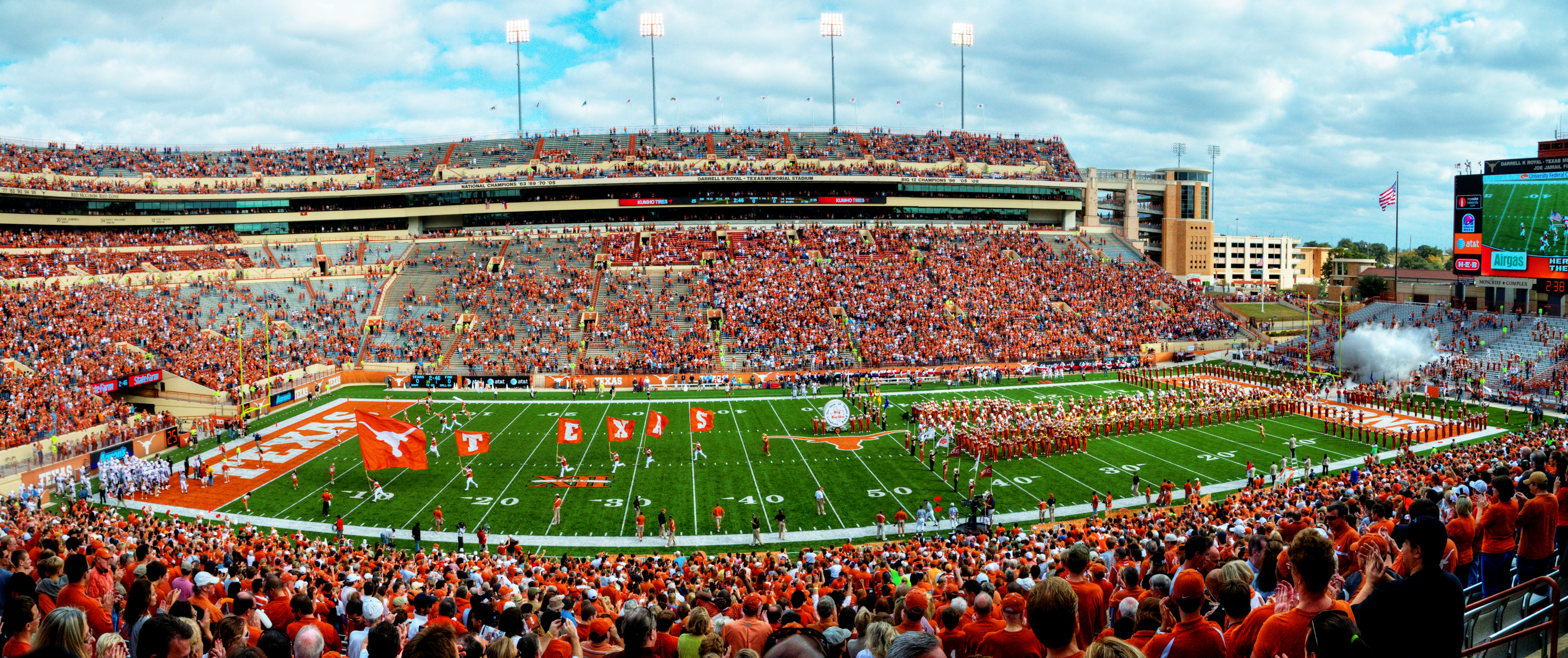 This is an image of the University of Texas at Austin stadium in 2010.